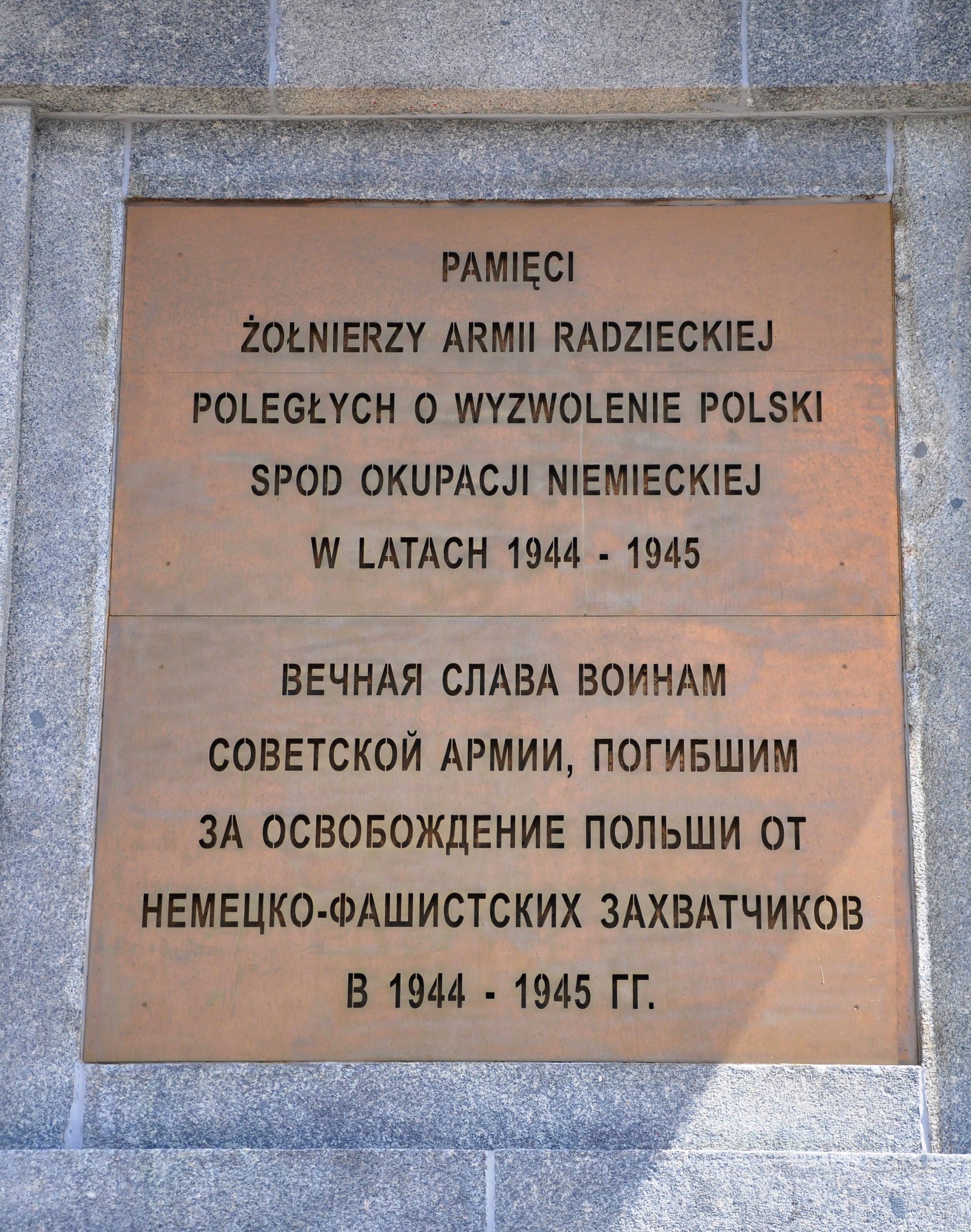 Soviet military cemetery in Warsaw